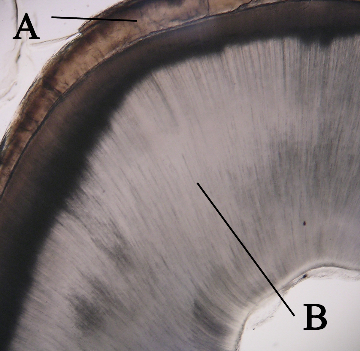 Histologic cross-section of tooth showing enamel, labeled A, and dentin, labeled B. Source: Photo taken by user:dozenist.